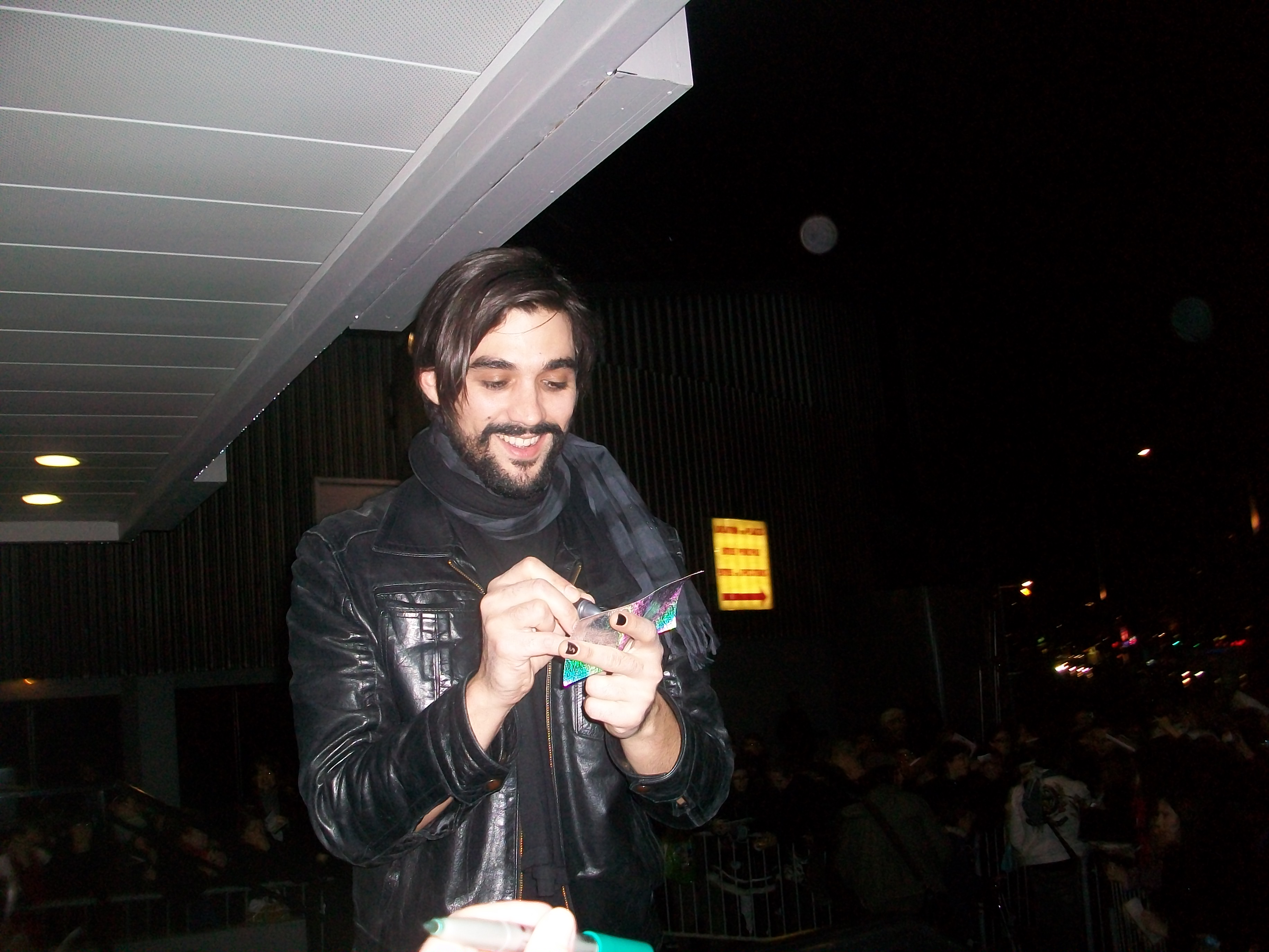 Florent Mothe after a Mozart l'Opéra Rock show @ Palais des Sports in Paris on December 5th 2009